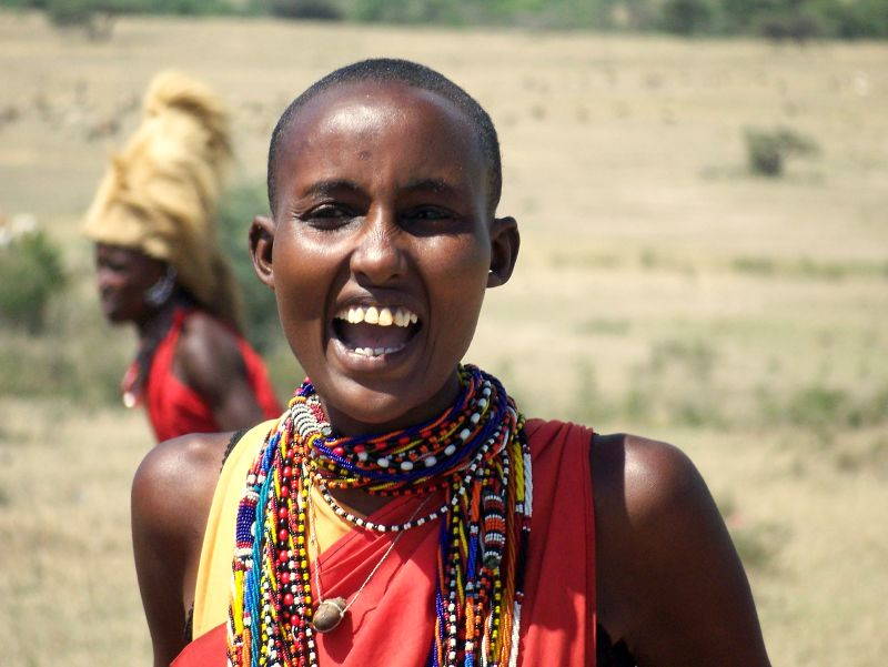 Maasai woman.100_1628